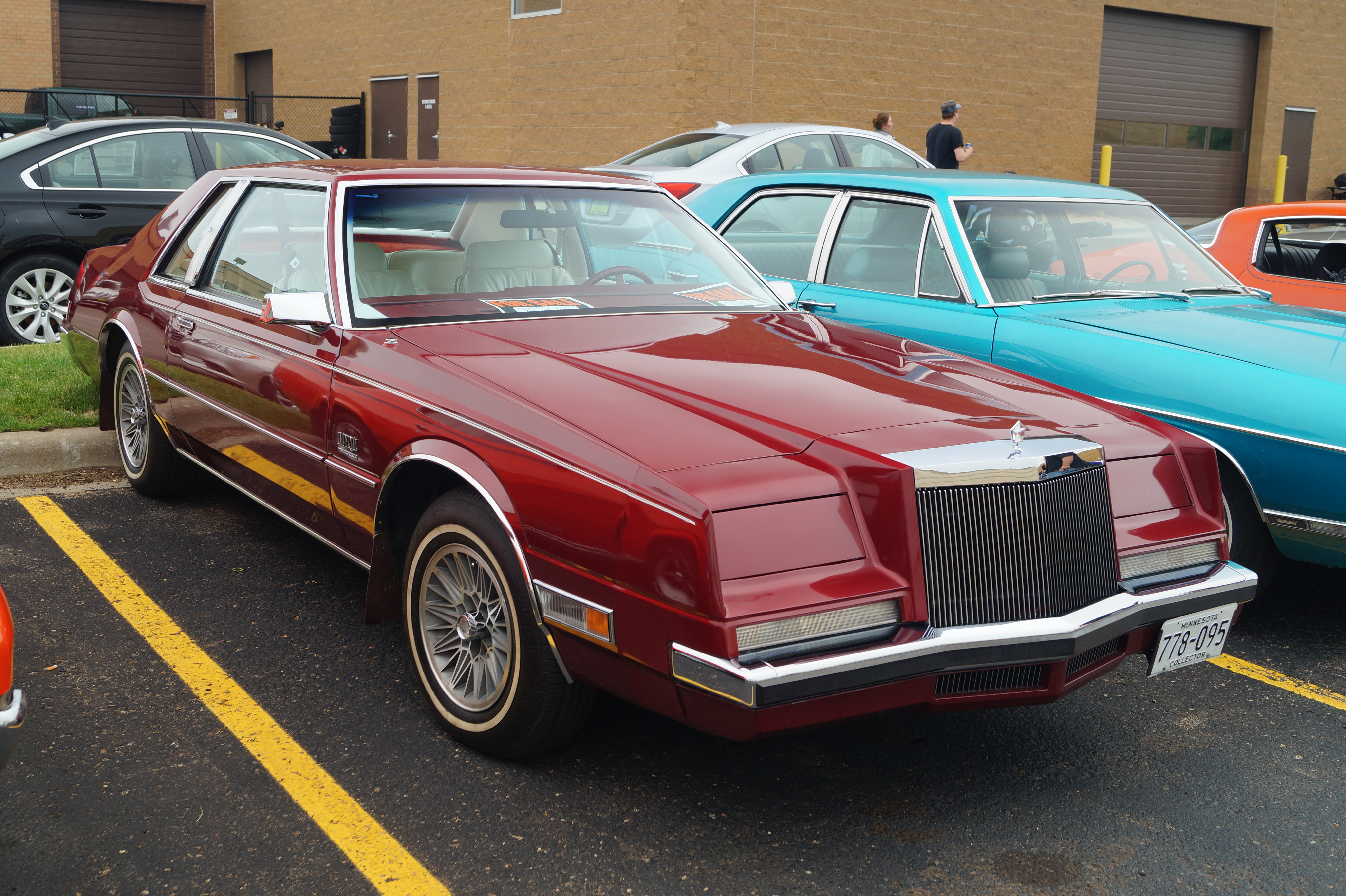 15th Annual TSI/Smith Nielsen Automotive Car Show Brooklyn Park, MInnesota Click here for more car pictures at my Flickr site.